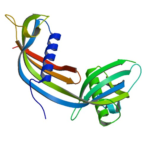 N-Truncated Human Cystatin C; Dimeric Form With 3D Domain Swapping. See Protein Data Bank for details.